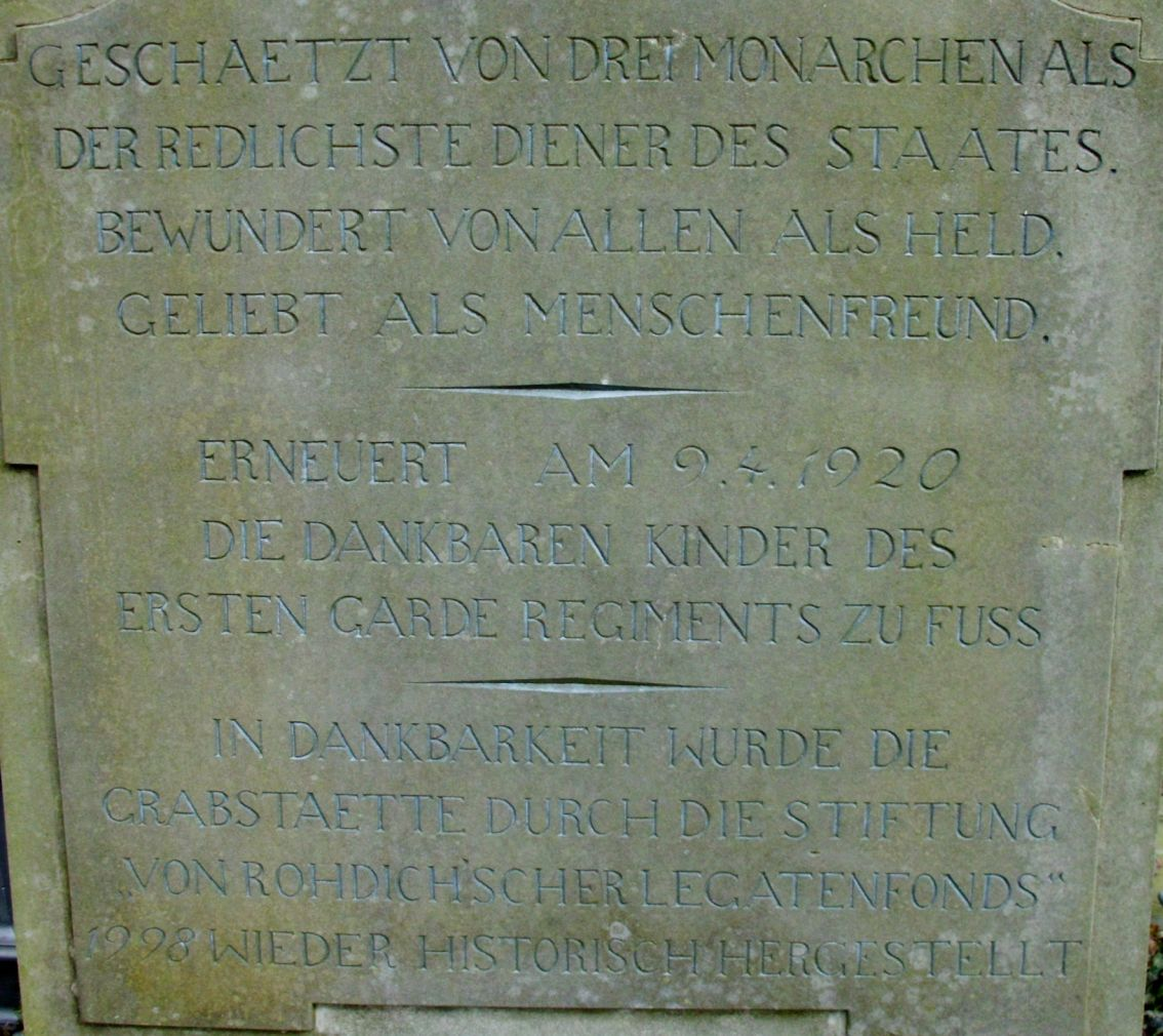 Grave of Friedrich Wilhelm von Rohdich - Tomb inscription back